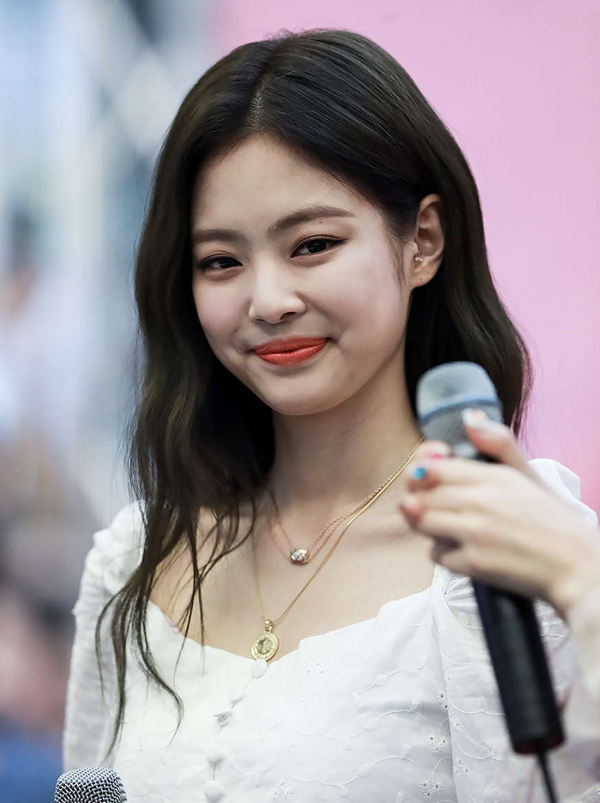 Jennie at a fansigning event on June 24, 2018.